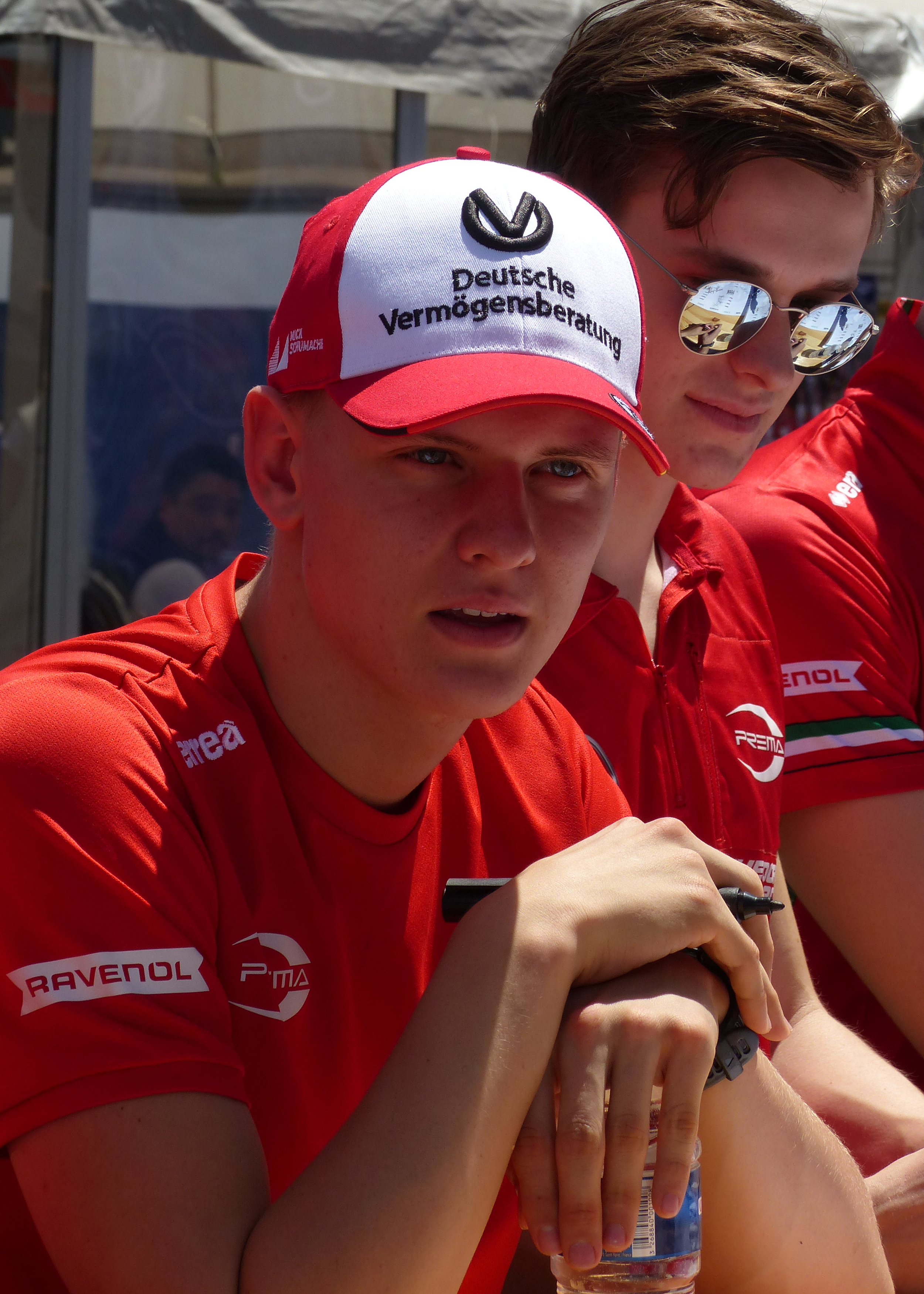 Mick Schumacher & Callum Ilott at the 76th Pau Grand Prix